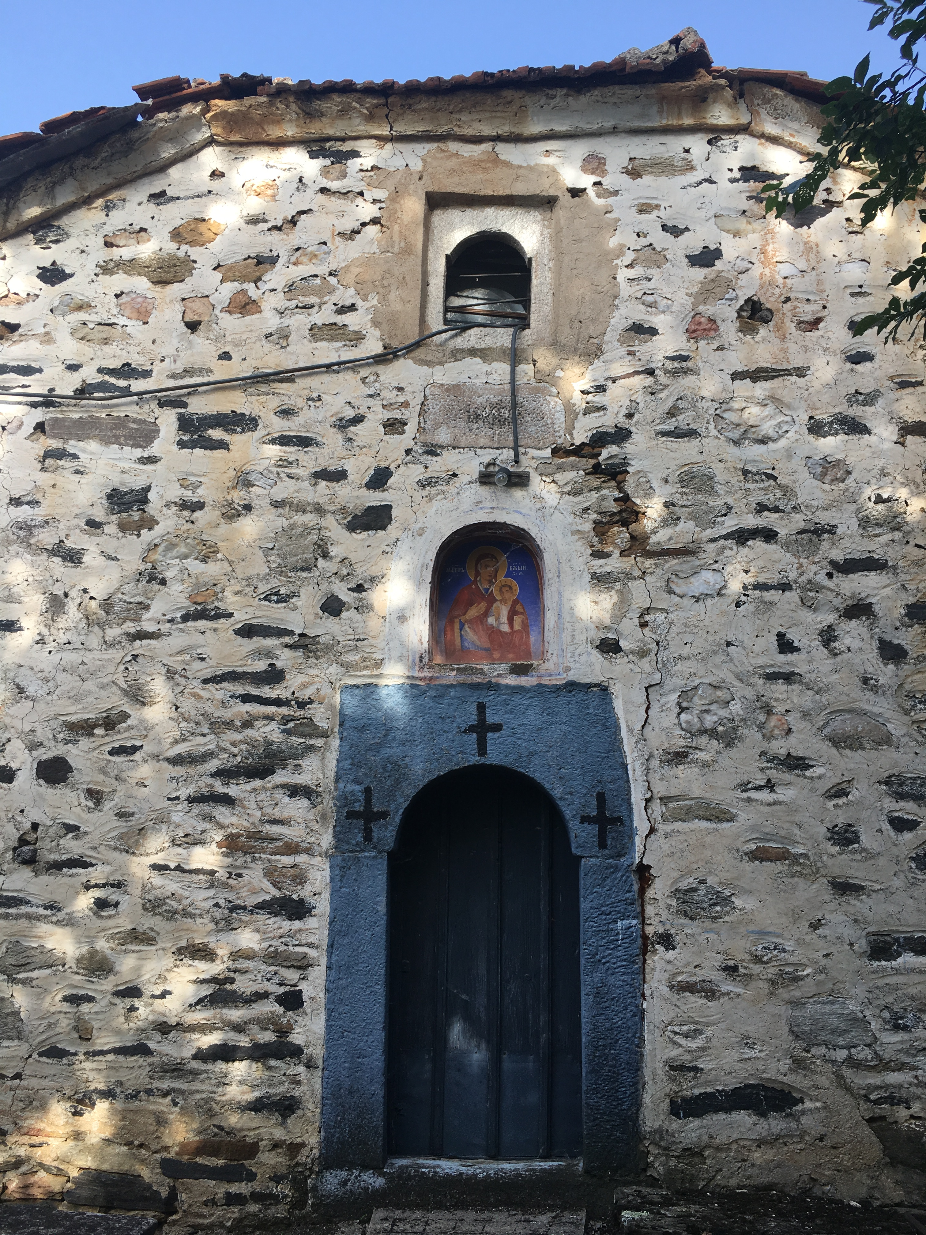 Nativity of the Theotokos Church in the village of Crničani